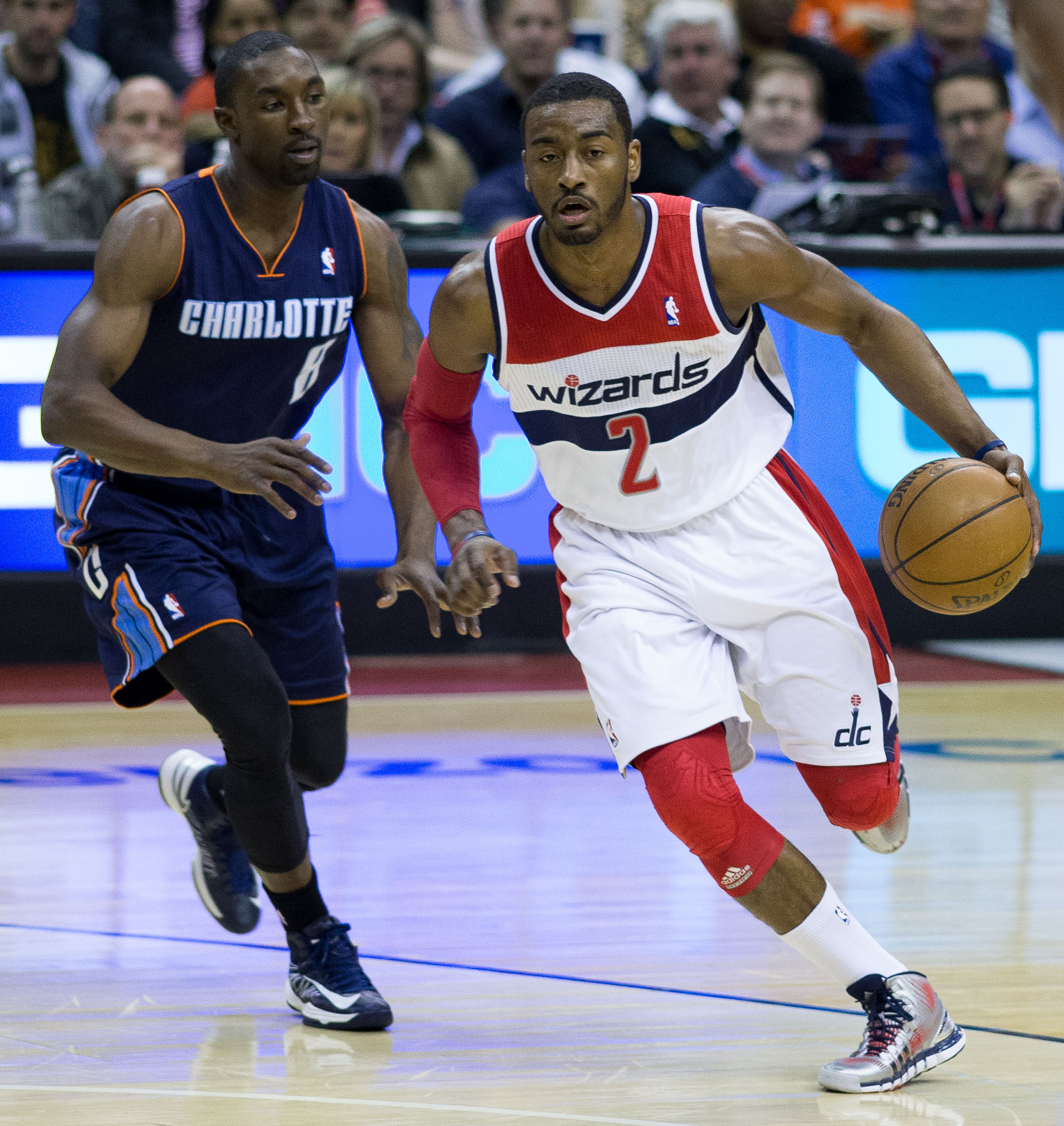 Charlotte Bobcats at Washington Wizards March 9, 2013